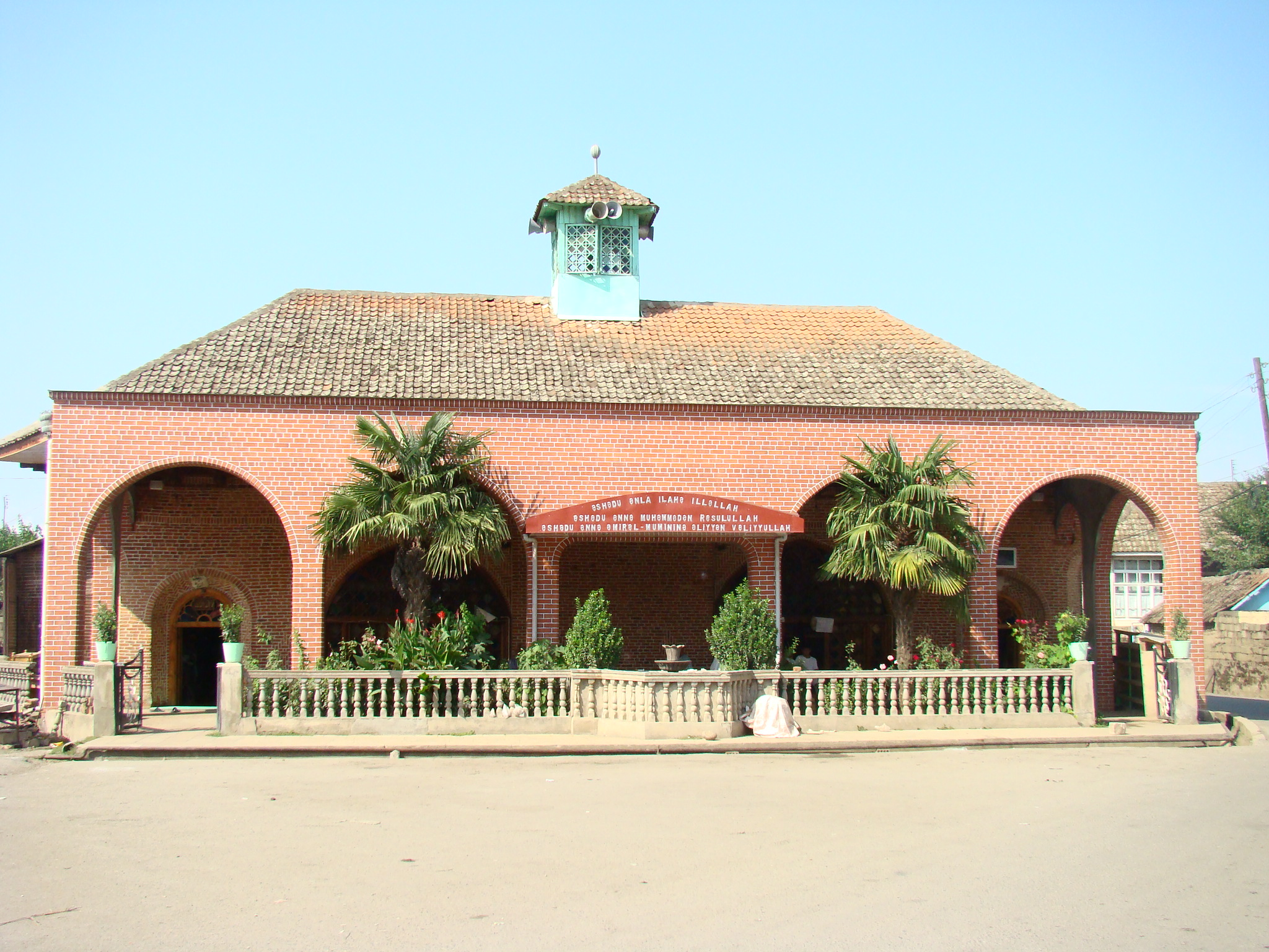 The Juma Mosque in Boradigah (Azerbaijan Republic)